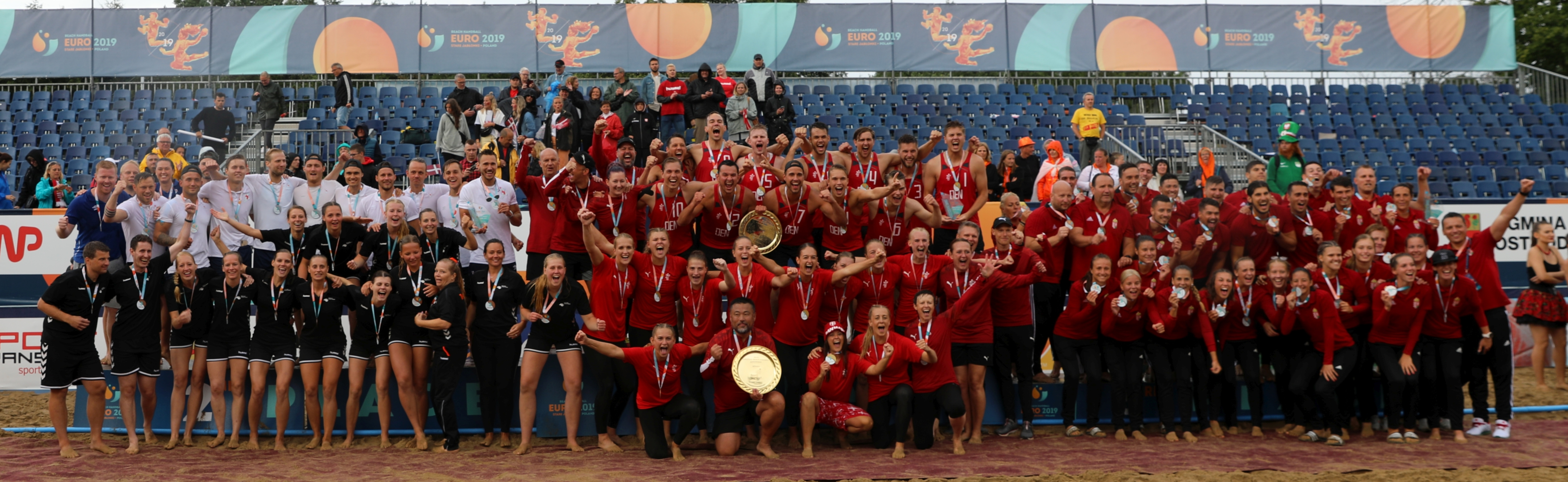 Beach handball Euro; Day 6: 7 July 2019 – Medal ceremony